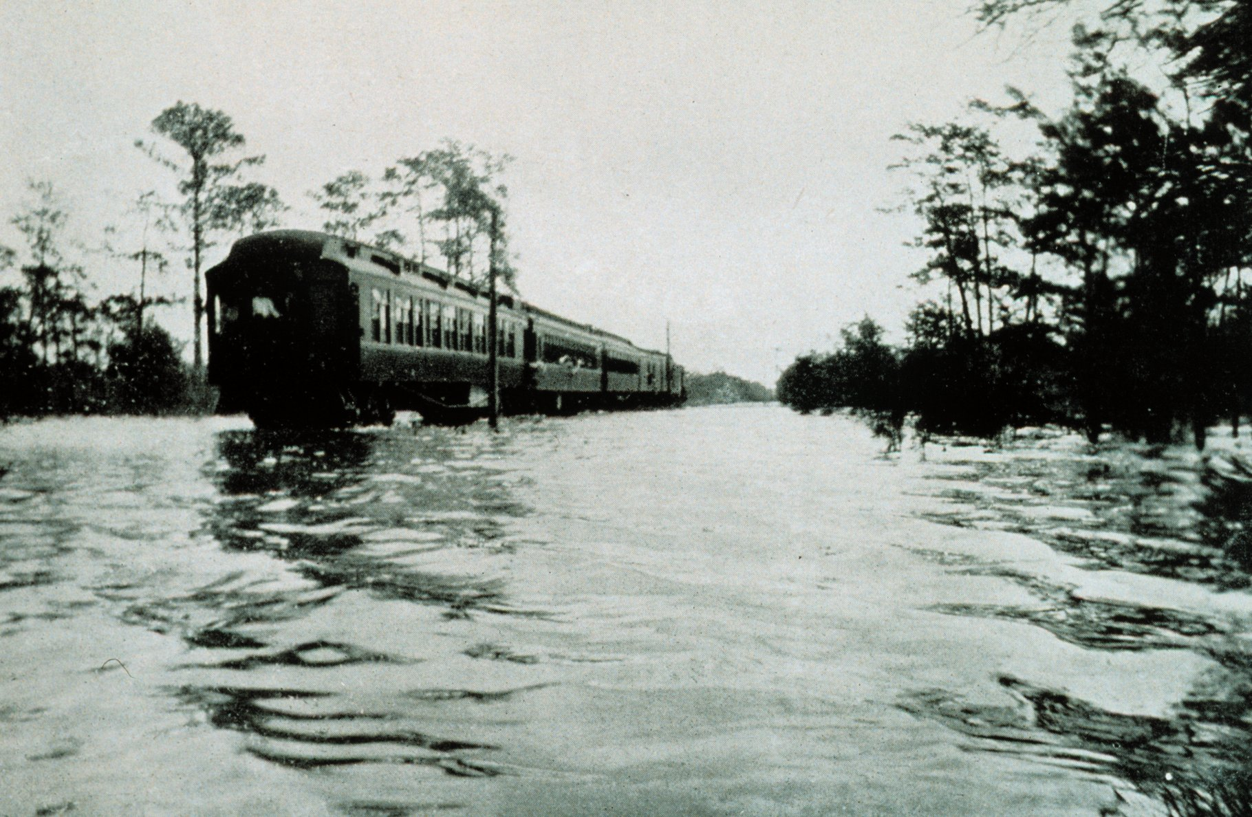 The southeast floods of 1916. Running through backwater from the Tombigbee River near Wagar, Alabama From: "The Floods of July, 1916", copyright 1917, Southern Railway Company. Library Call Number F215.F55 1917.